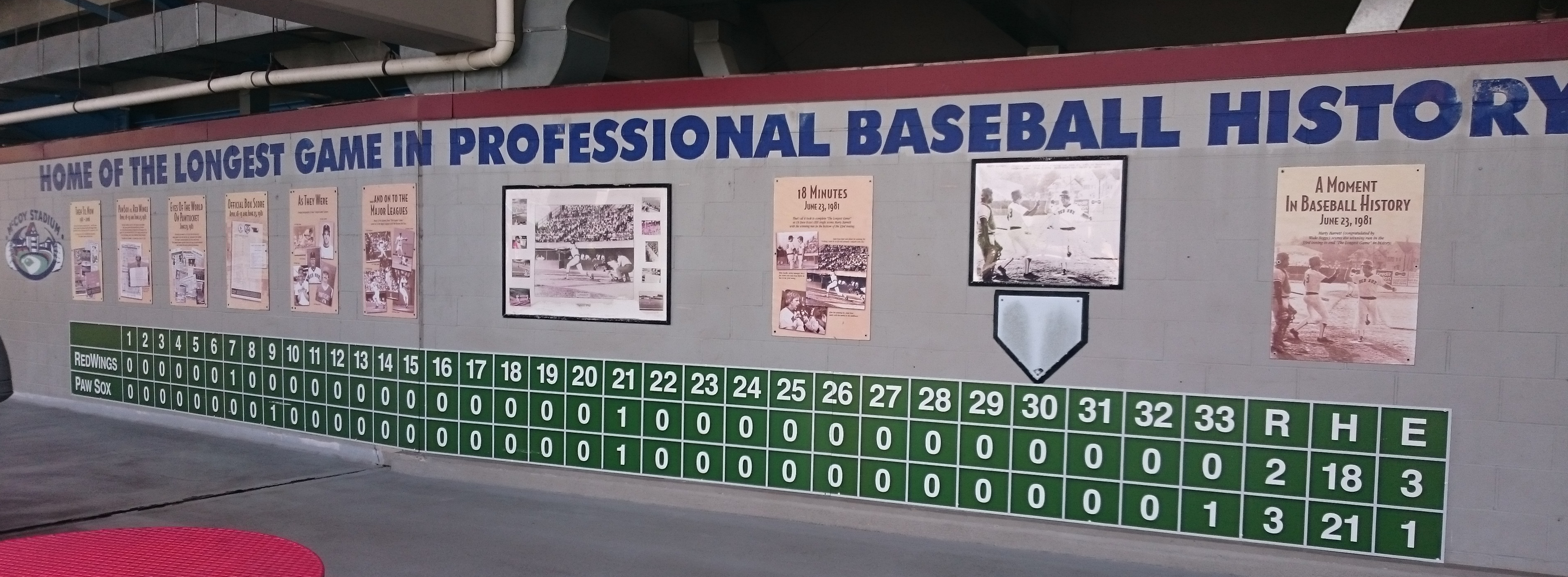 Exhibit showing line score of the longest game in professional baseball history on the concourse of McCoy Stadium, Pawtucket, RI.